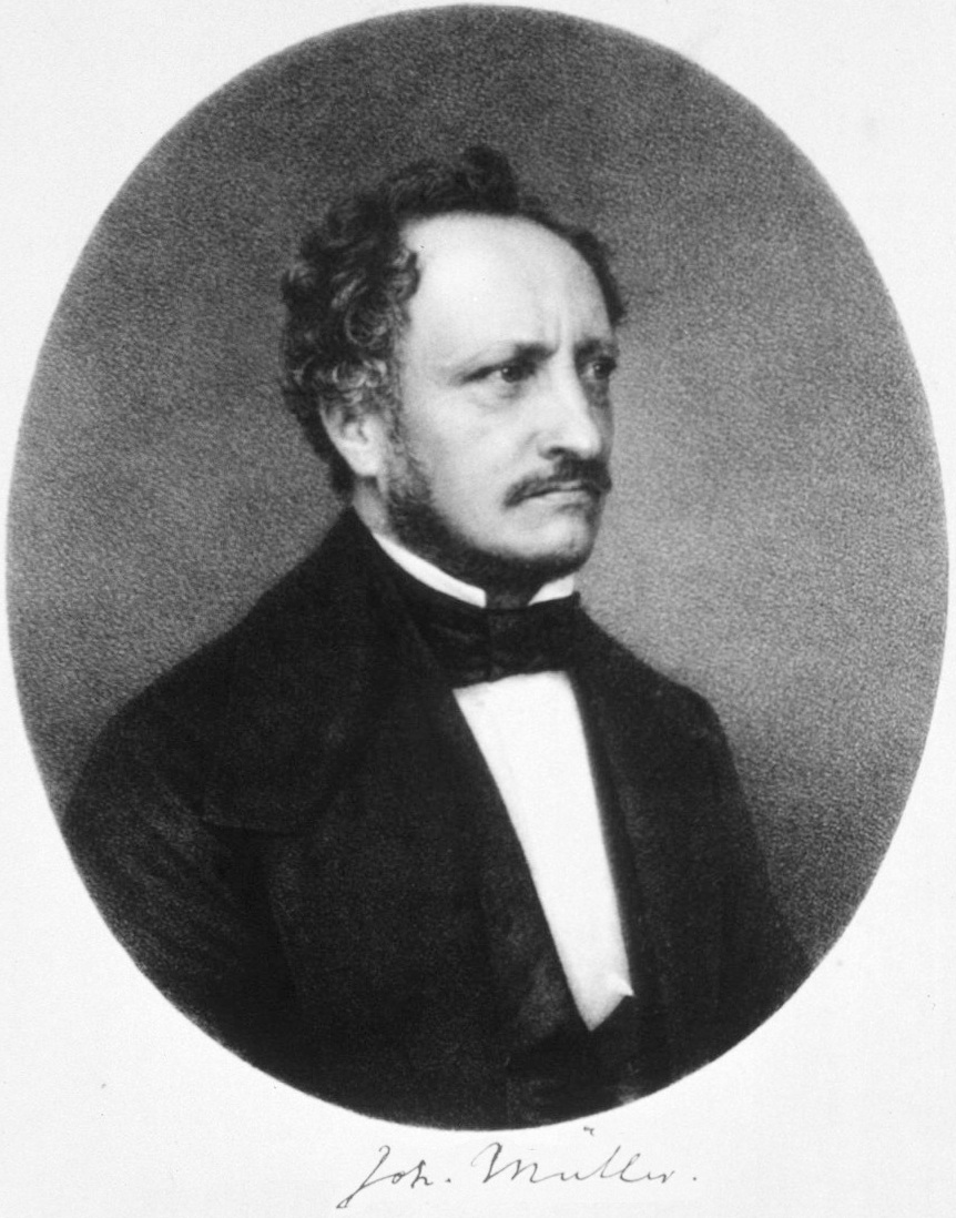 Johannes Peter Müller (14 July 1801 – 28 April 1858)